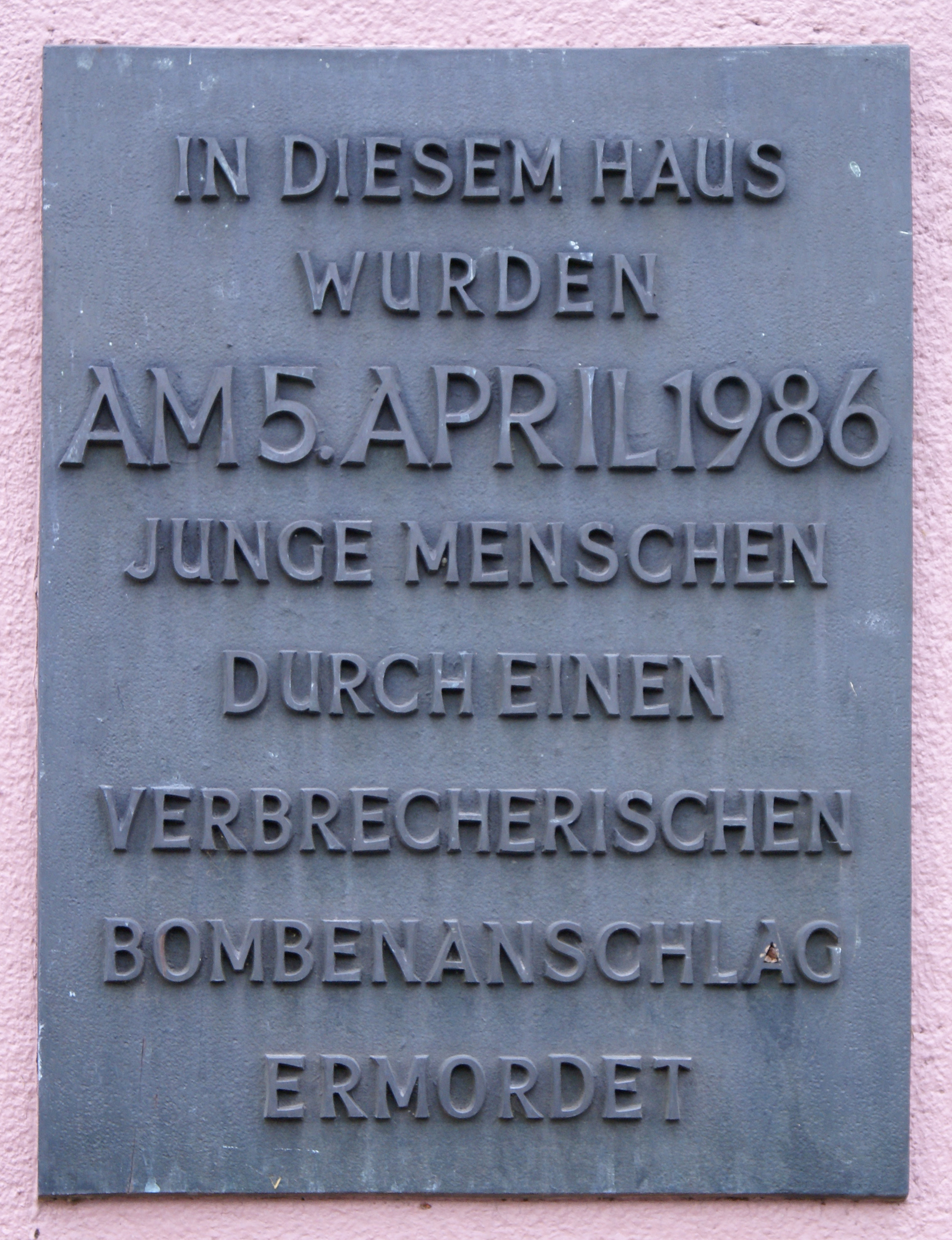 Memorial plate at the former "La Belle" dicotheque in Berlin-Friedenau.